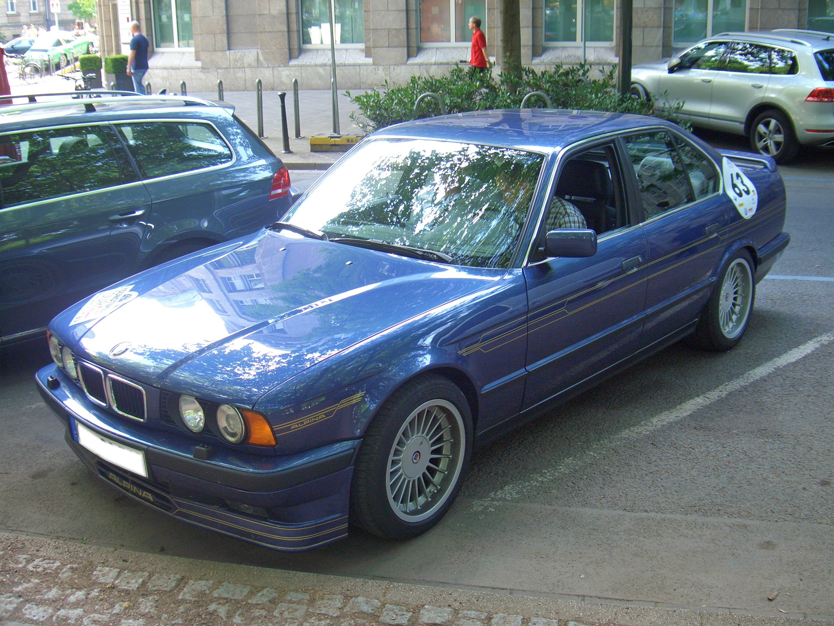 Alpina B10 Biturbo (based on BMW 5 series E34), 1989-1994, seen at AUTO ZEITUNG Youngtimer Tour 2011, finish at Königsallee, Düsseldorf